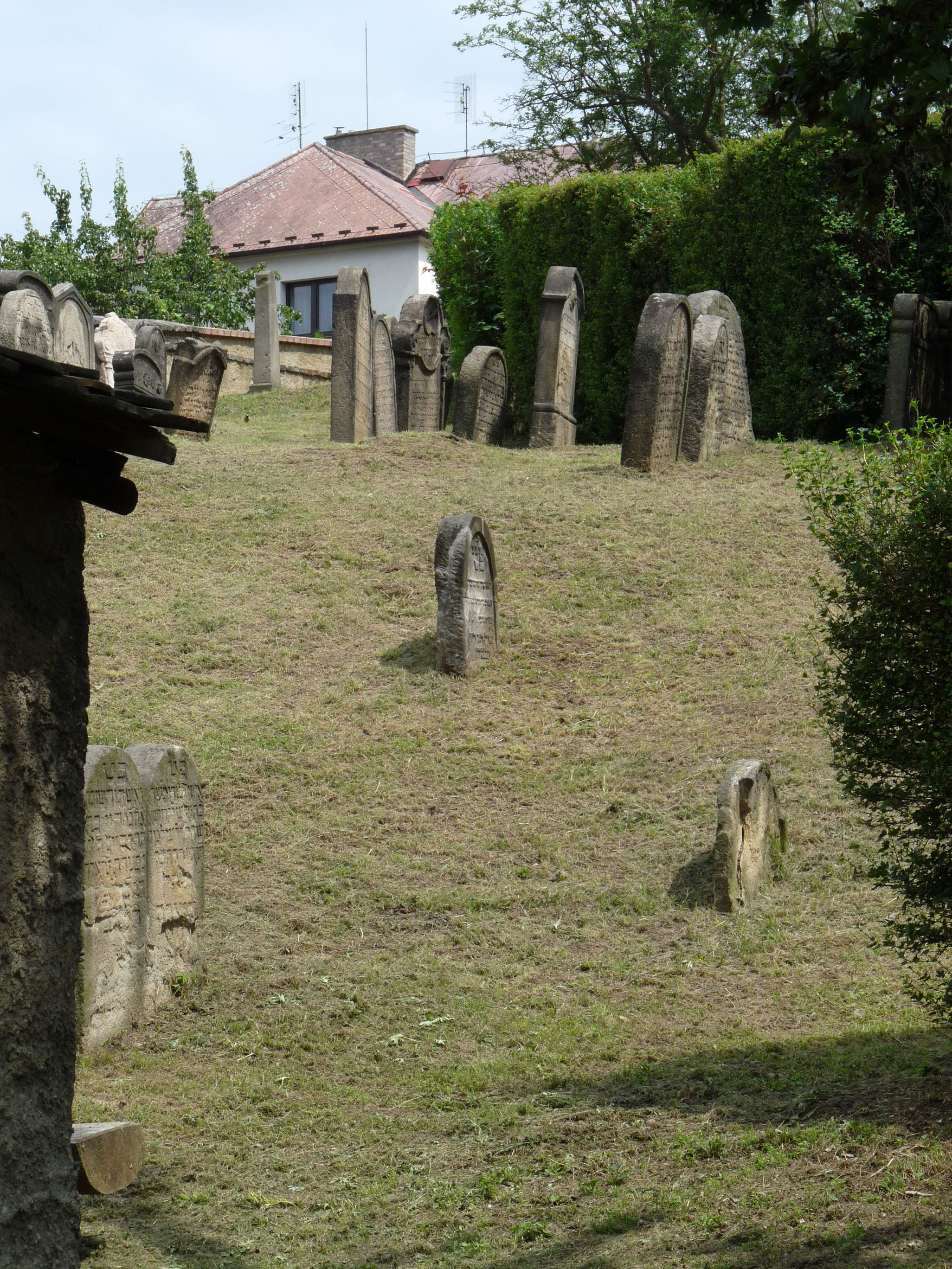 Gravestones in the Jewish cemetery in the town of Rakovník, Central Bohemian Region, Czech Republic.